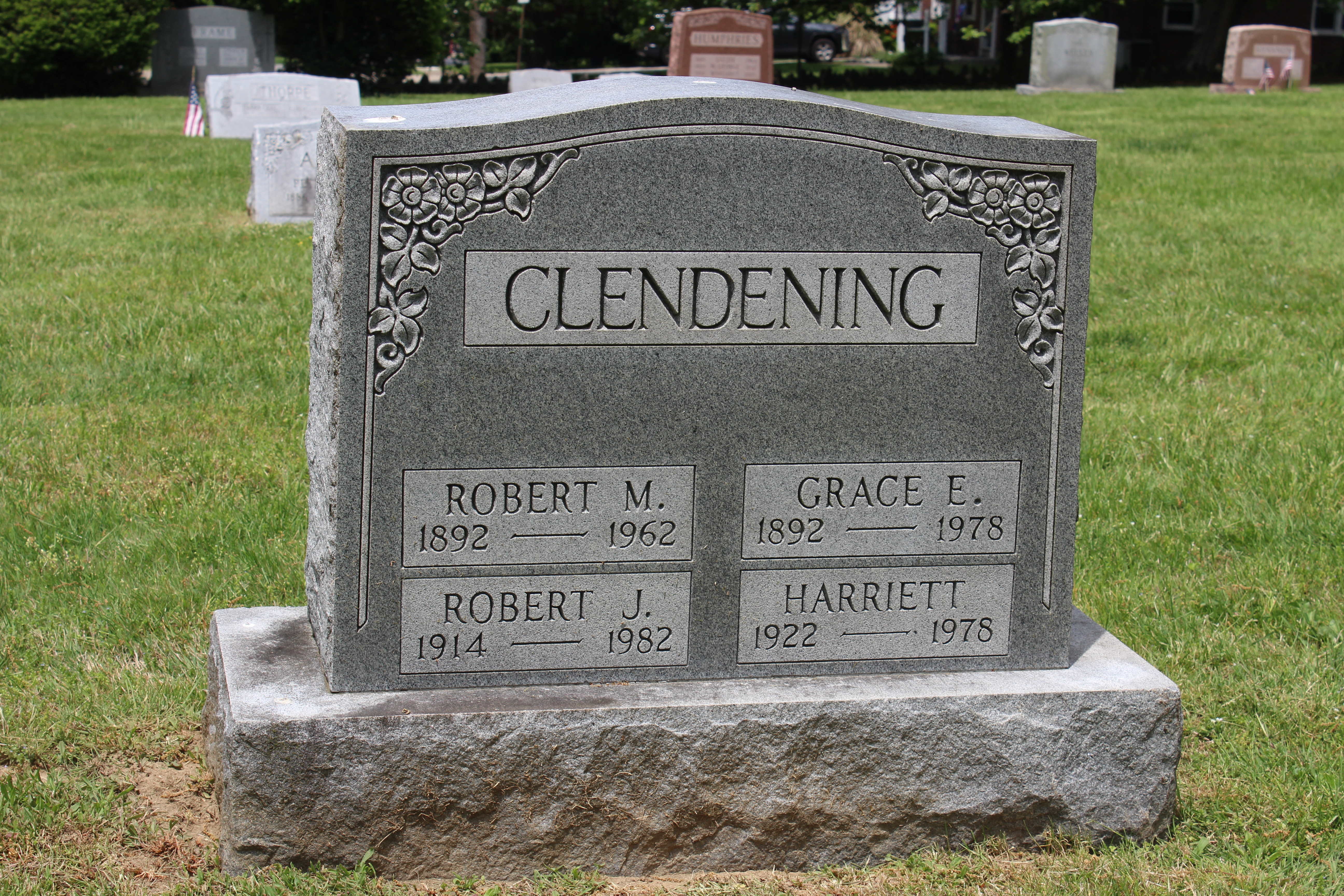 Robert Clendening gravestone in Arlington Cemetery, Drexel Hill, Pennsylvania. Photo taken May 2020.